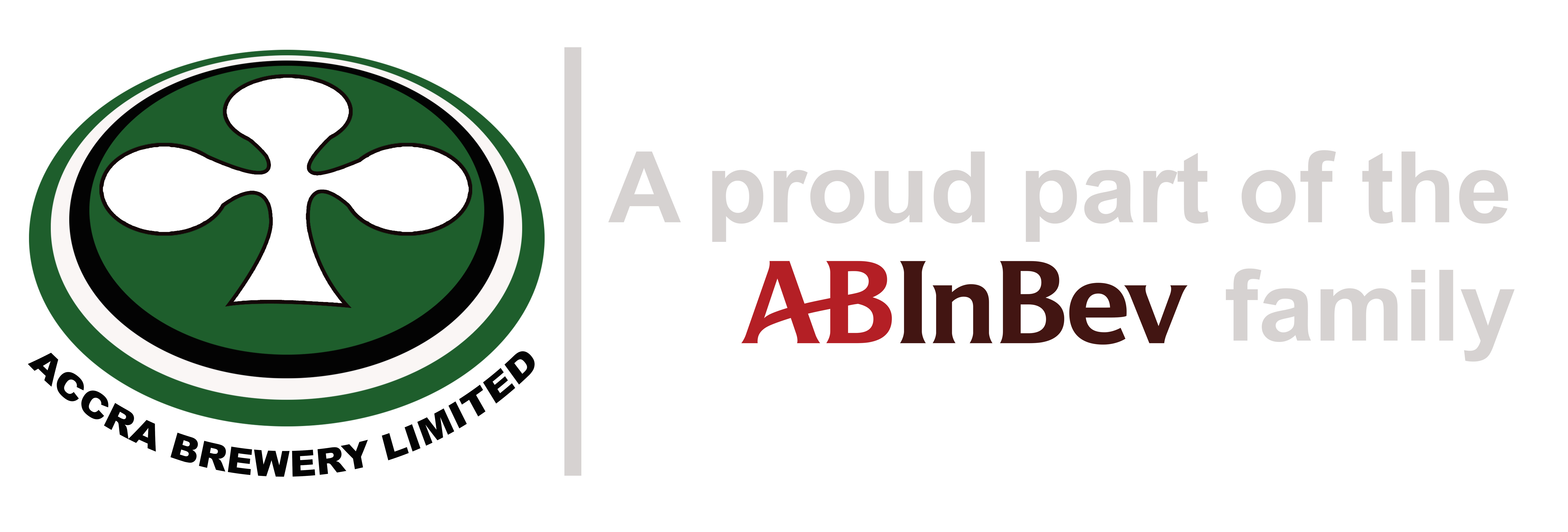 a white shamrock against a tilted green background beside the ABInBev logo